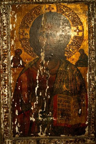 Saint Demetrius Church in Bitusha Royal Christ Icon with Slavonic Inscription 1621 - 1622